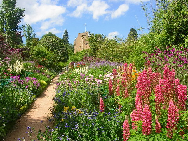 June Border at Crathes Castle Gardens. For a view of the gardens under a deep snow cover see 143394.